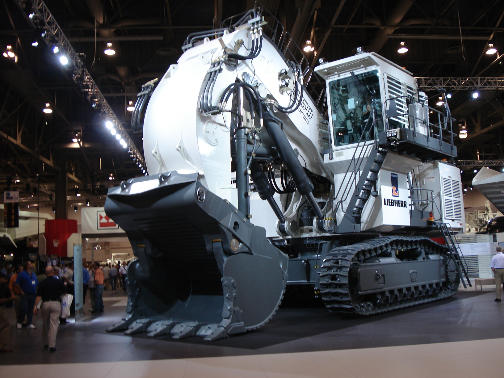 an open pit mining shovel, picture taken at the 2008 MinExpo in Las Vegas Nevada USA